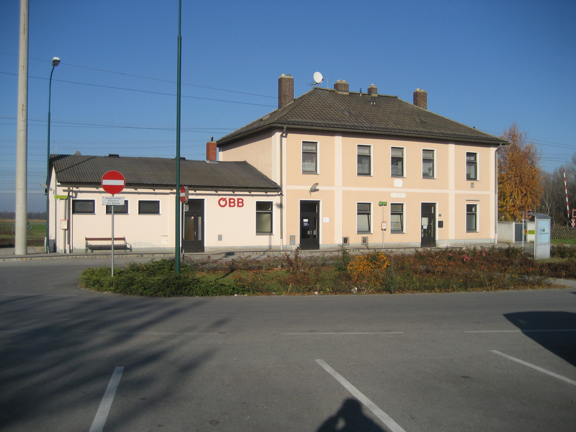 train station Götzendorf in Lower Austria